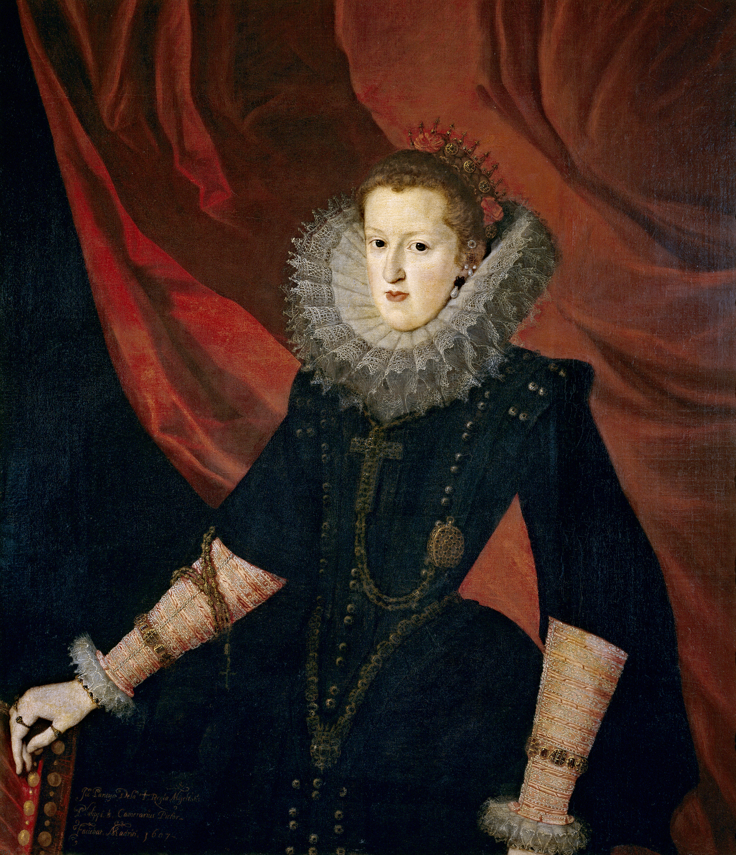 Portrait of Margaret of Austria (1584-1611), queen of Spain.